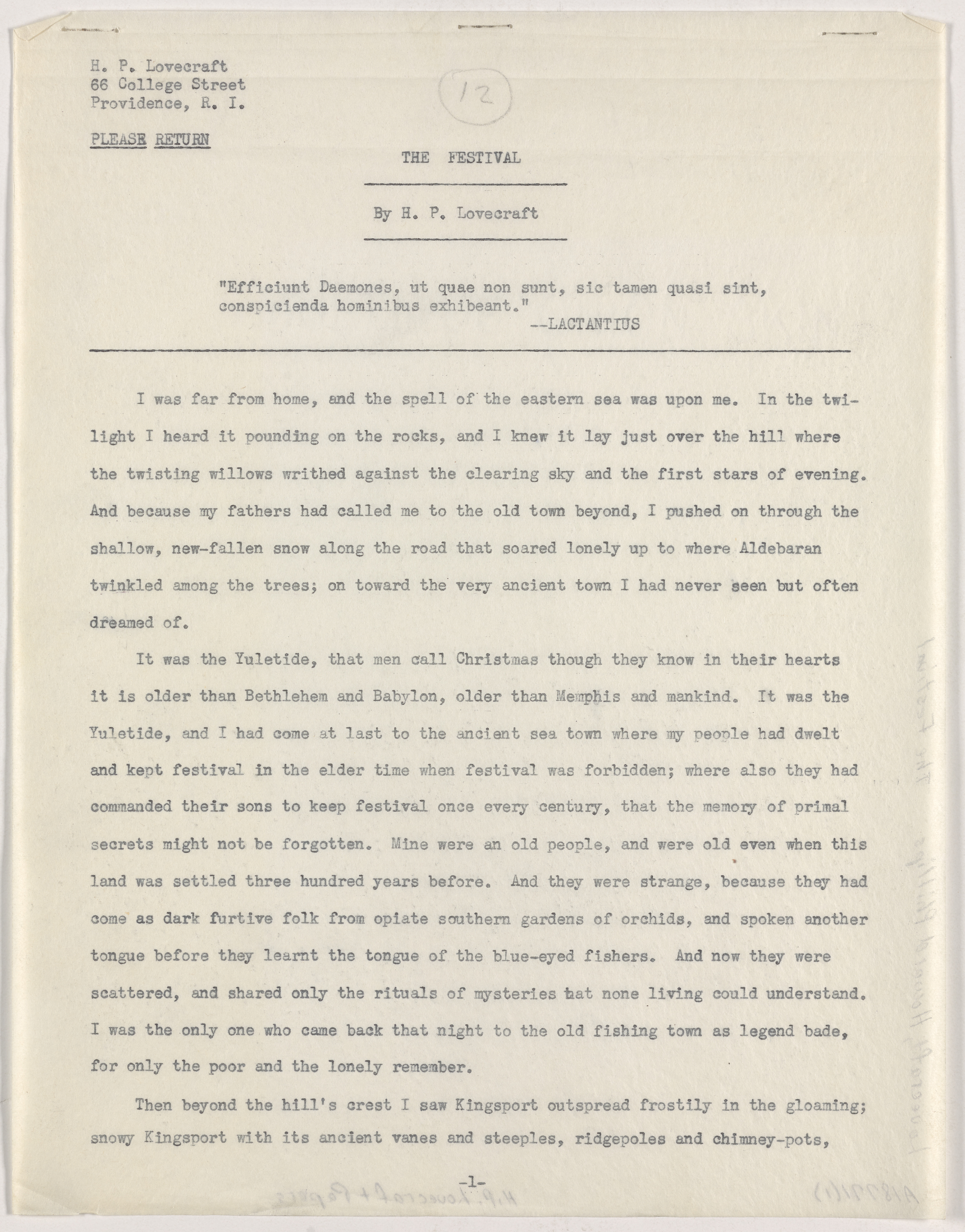 First page of the manuscript The Festival.